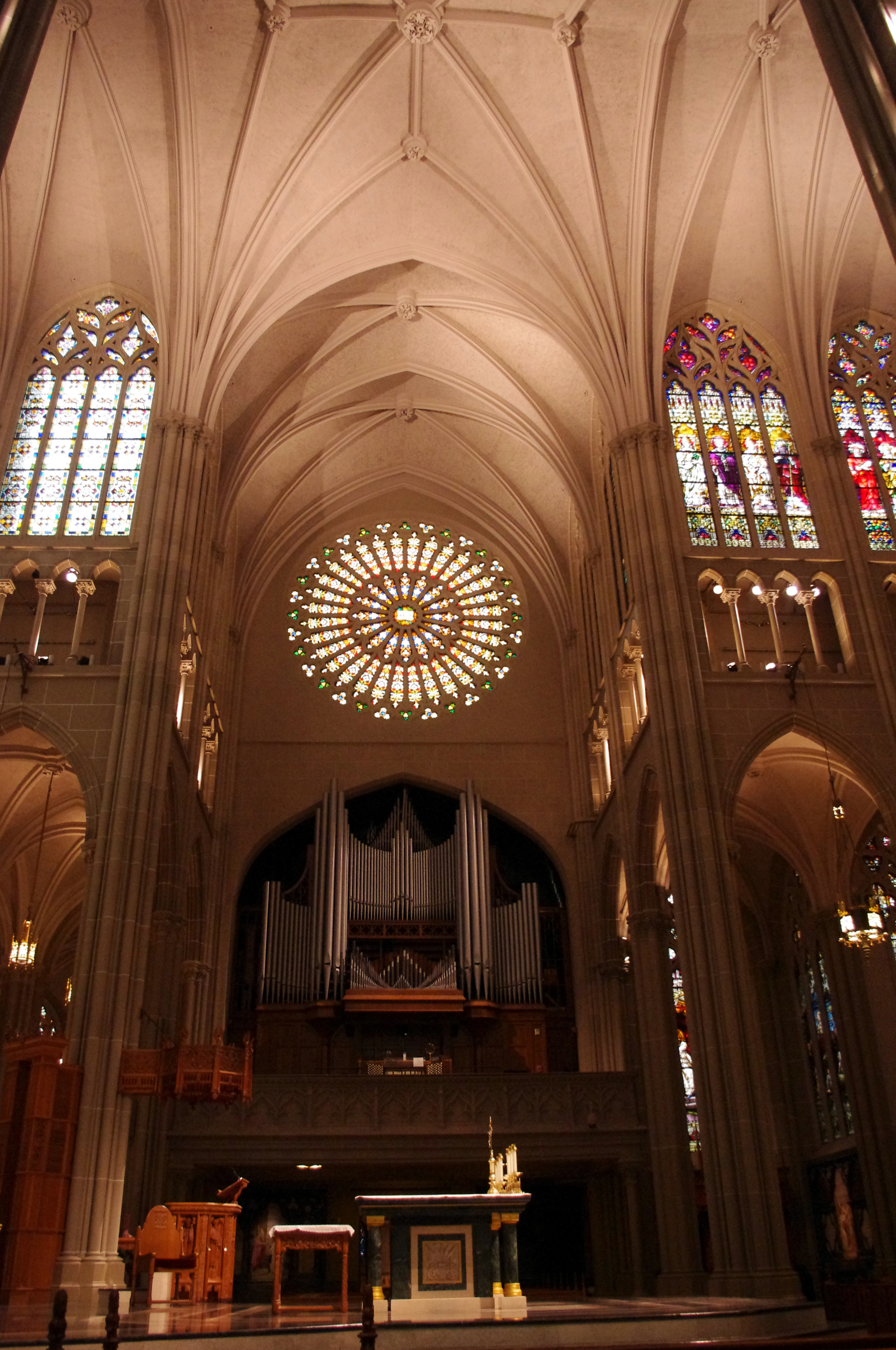 St. Mary's Cathedral Basilica of the Assumption (Covington, Kentucky), interior, south transcept